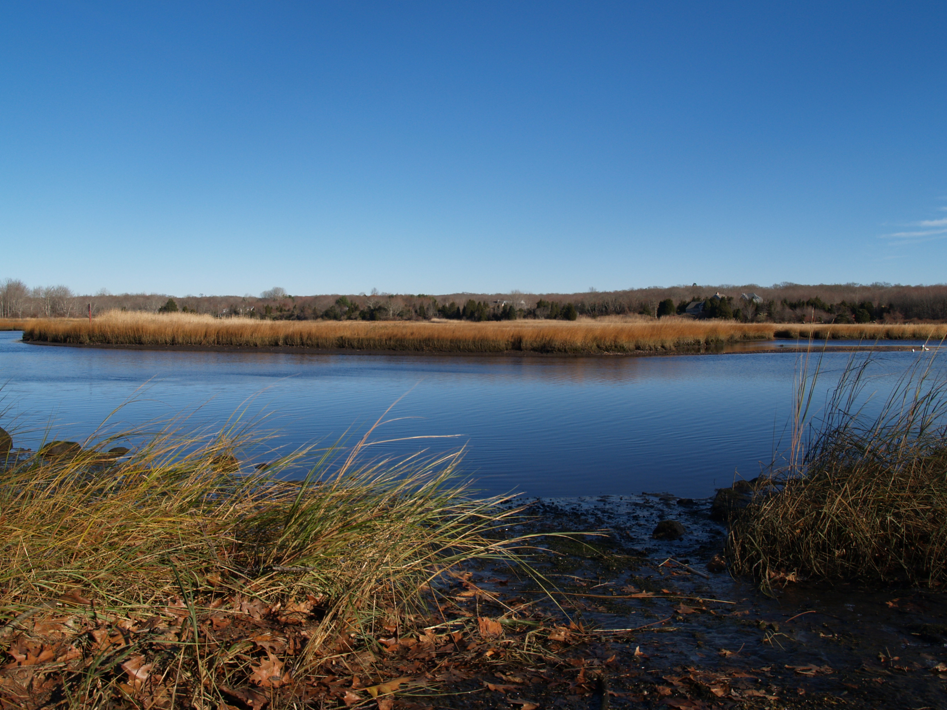 View of Westport River - West Branch, Westport, Massachusetts